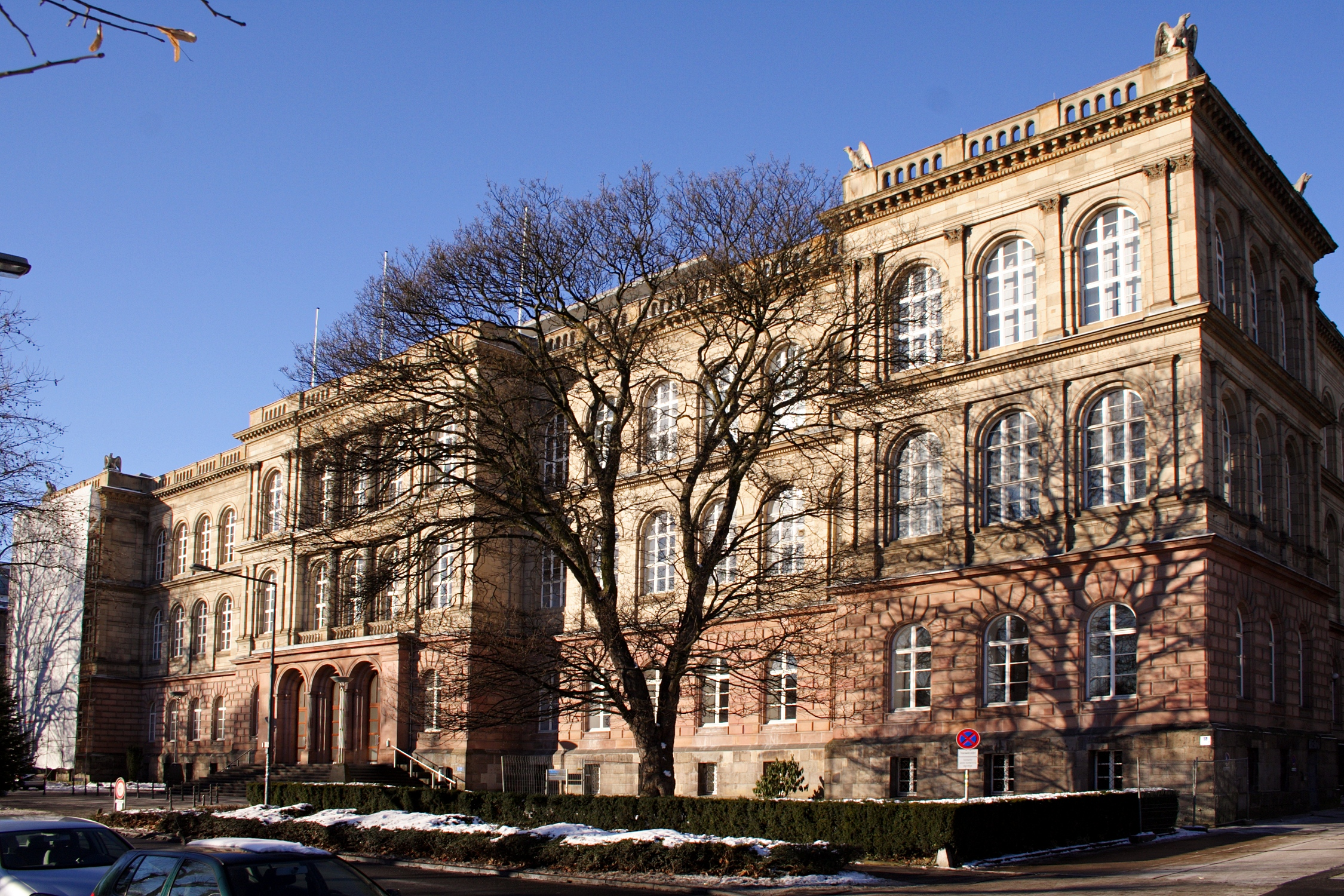 This image shows the main building of the RWTH Aachen University in the city of Aachen, Germany.